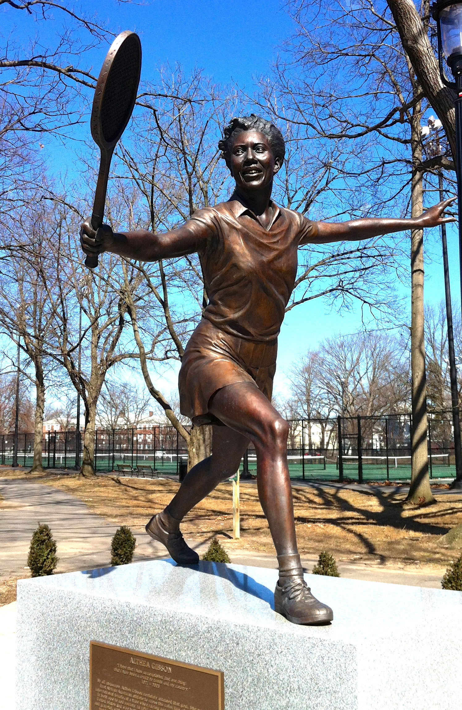 Statue of Althea Gibson, north of Franklin Street in Branch Brook Park, Newark, NJ, USA